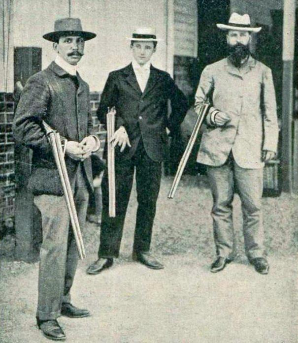 Winner of the Trapp shooting event at the 1900 Olympic Games. Left to right: Roger de Barbarin, René Guyot, Justinien Clary. photography, reproduction, no restrictions on use